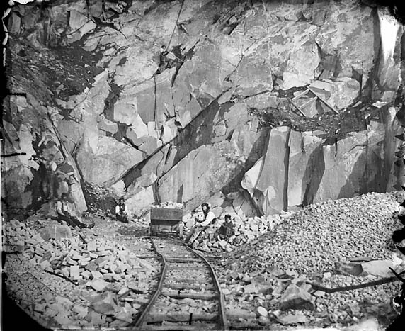 1 negative : glass, wet collodion, b&w ; 19 x 22.5 cm.